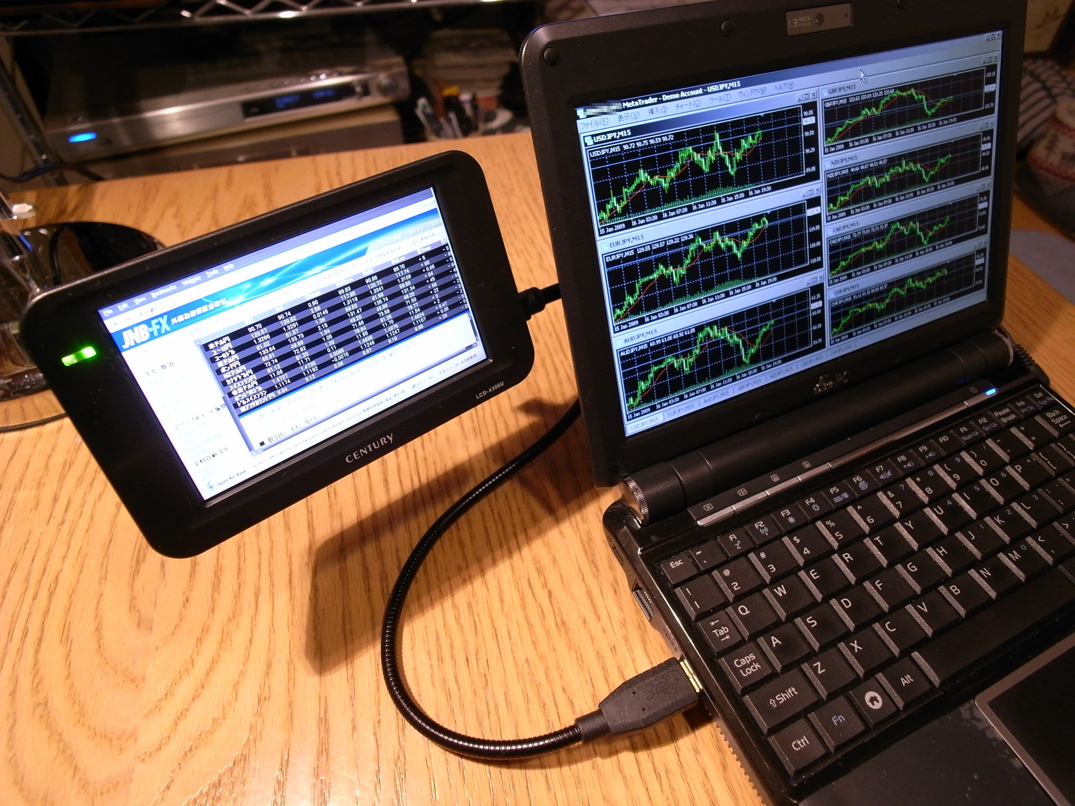 USB Display